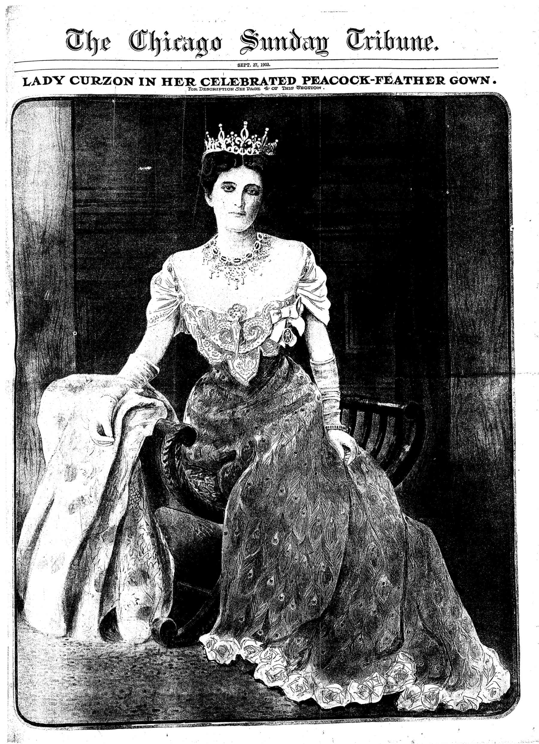 Lady Curzon's peacock gown - Chicago Tribune 27 Spetember 1903